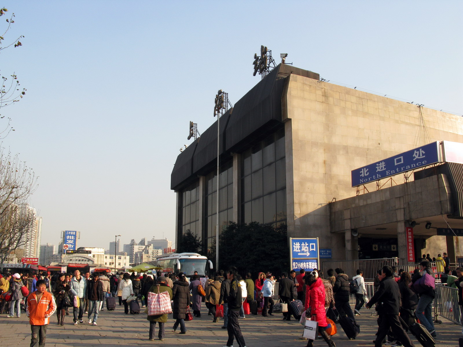 上海火車站-北廣場 North Entrance of Shanghai Railway Station